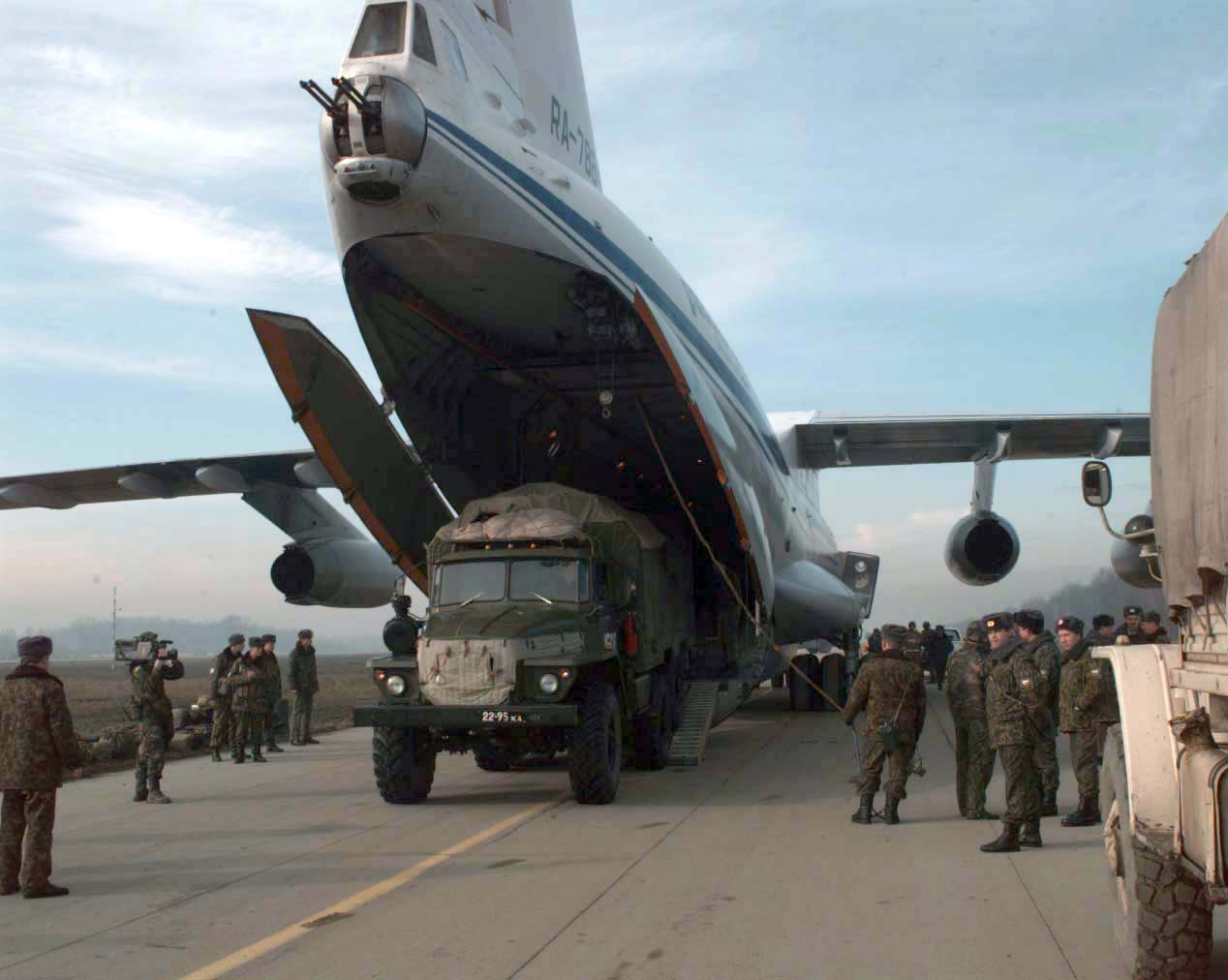 The first Russian vehicle rolls off a Russian IL-76 in Tuzla after being transported from Russia to join the NATO peacekeeping operation in Bosnia.